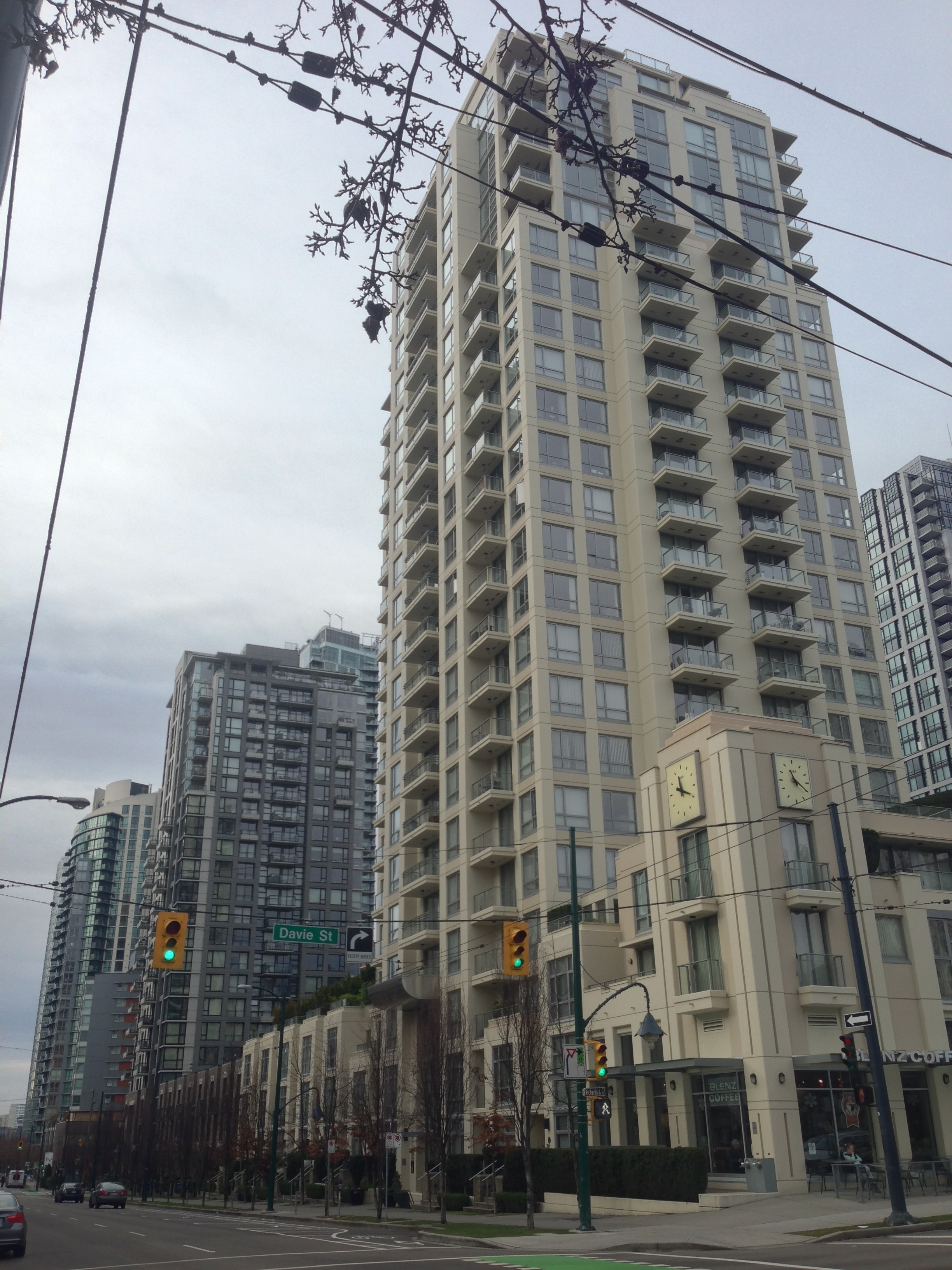 An example of early 21st Century "point towers" on podium-type bases on Vancouver's downtown peninsula. Photo looking south on Richards Street at Davie Street, Vancouver, British Columbia, Canada